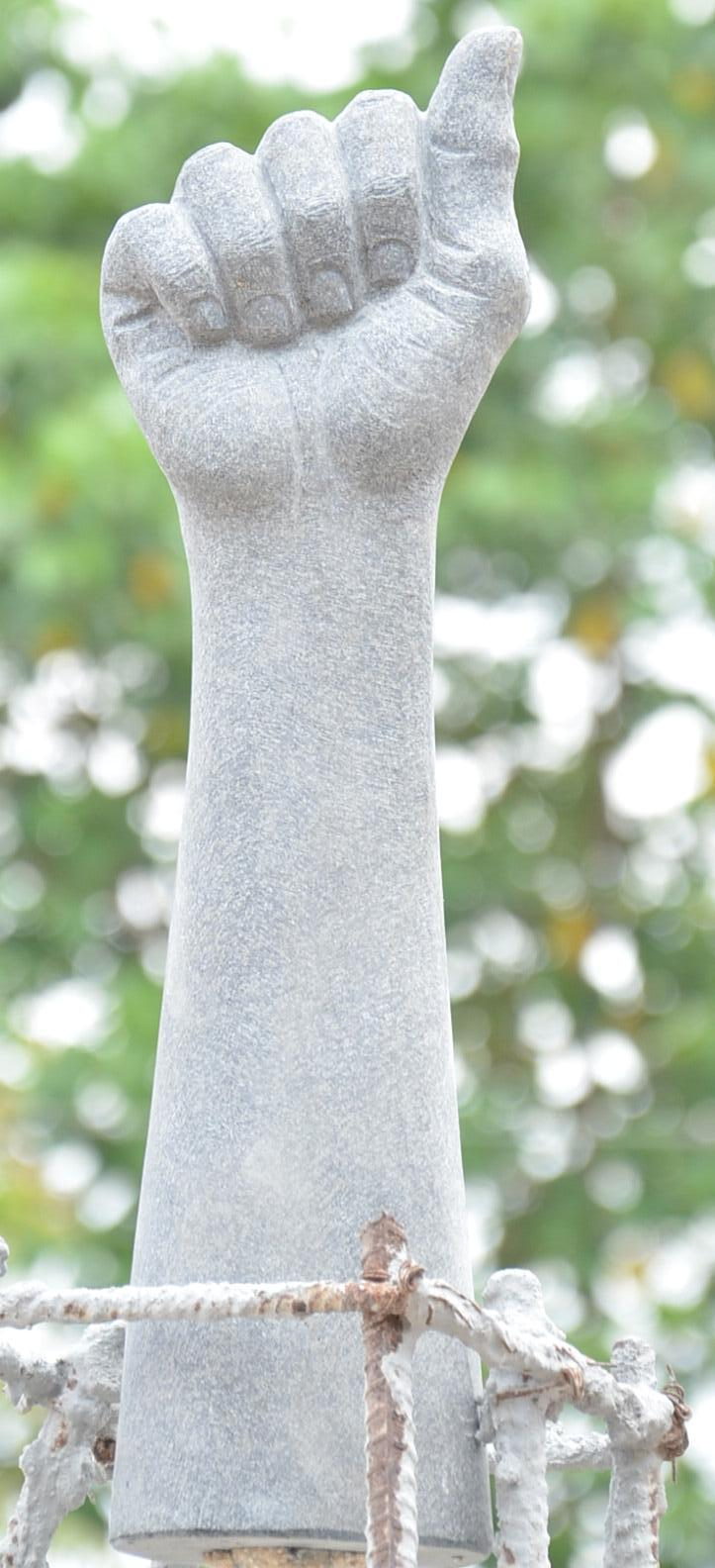 Nagapattinam, Venmani martyrs memorial building opening